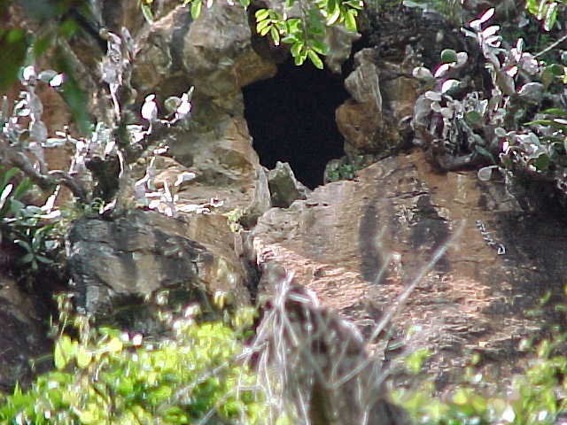 MONUMENTO CUEVAS DEL CAFETAL CARACAS - VENEZUELA